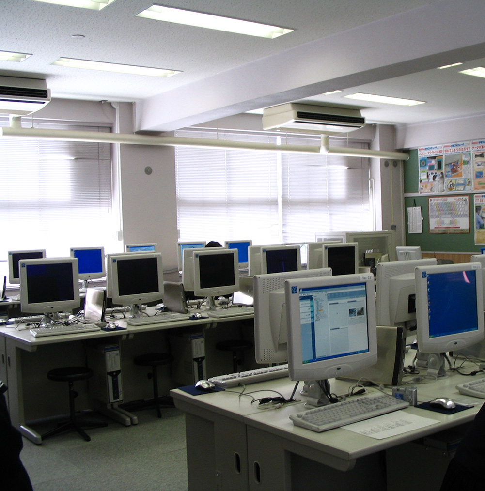 コンピュータ室（特別教室）(教室) Computer classroom in junior high school in Japan.